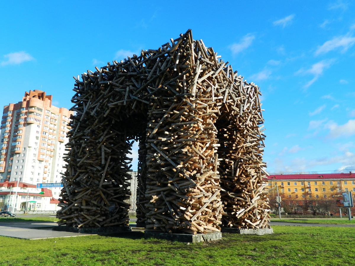 Perm Gates